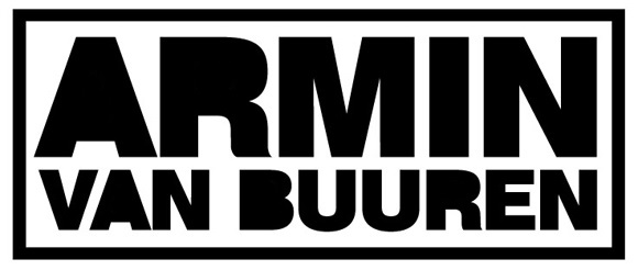 Shows the new Armin Van Buuren logo used since 2015